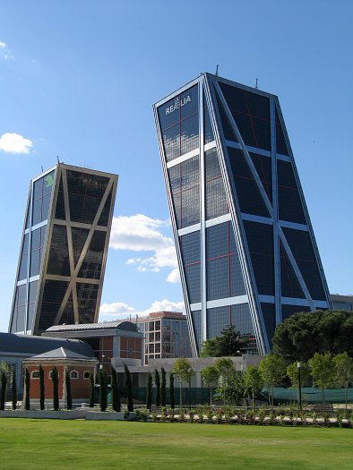 Puerta de Europa buildings at Plaza de Castilla (square) in Madrid (Spain).